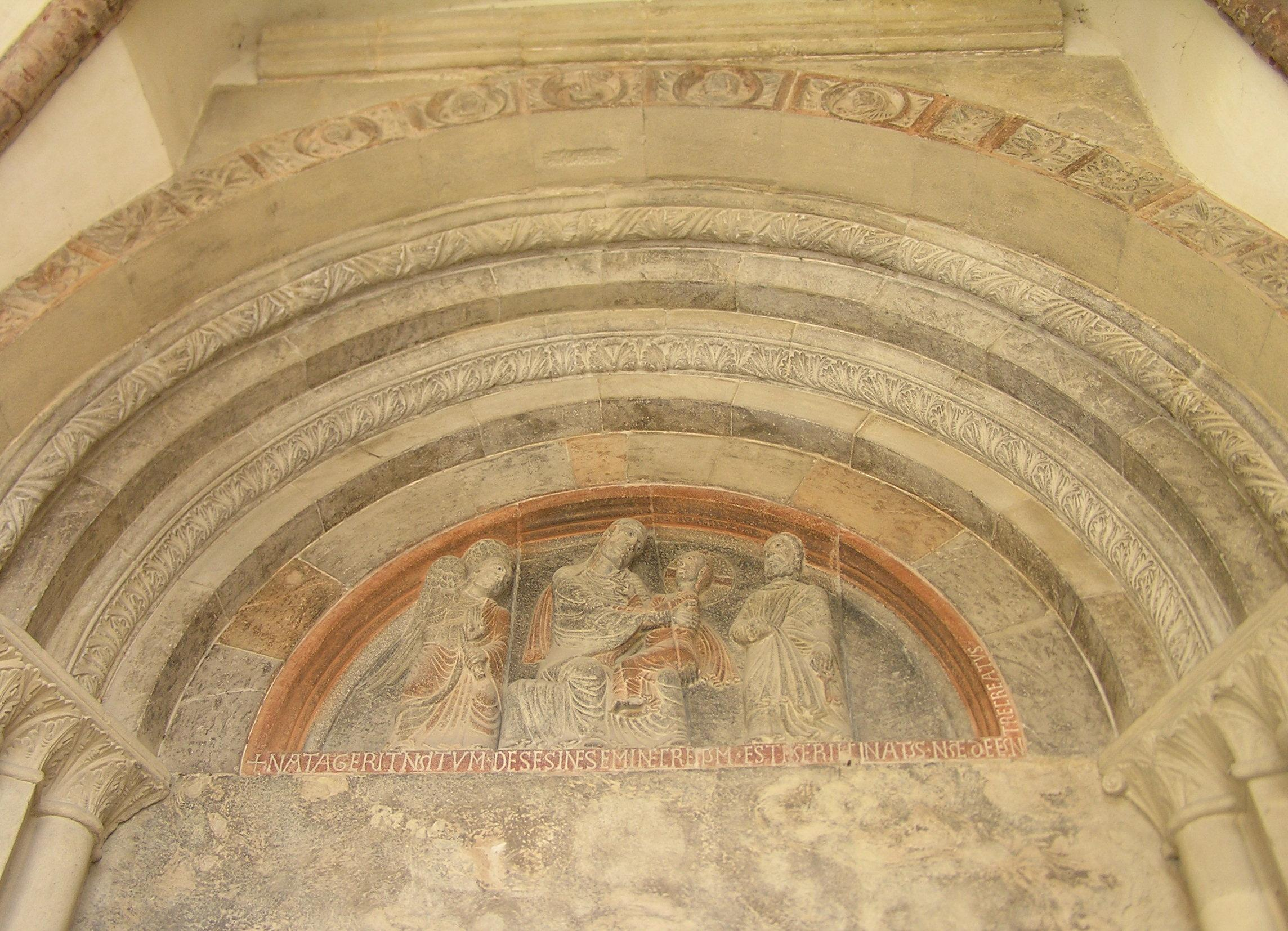 Door's sculpture